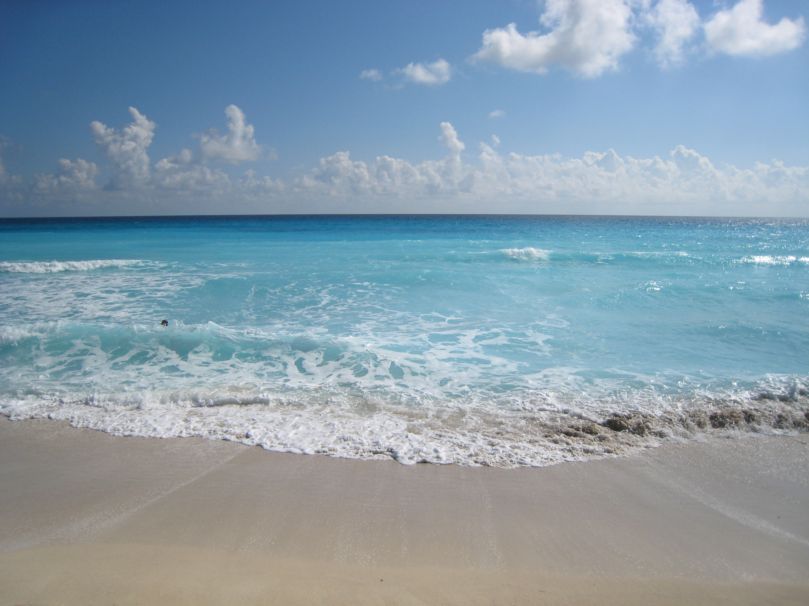 It was so beautiful down in Cancun. We had a wonderful place to stay. I cant' wait to go back.